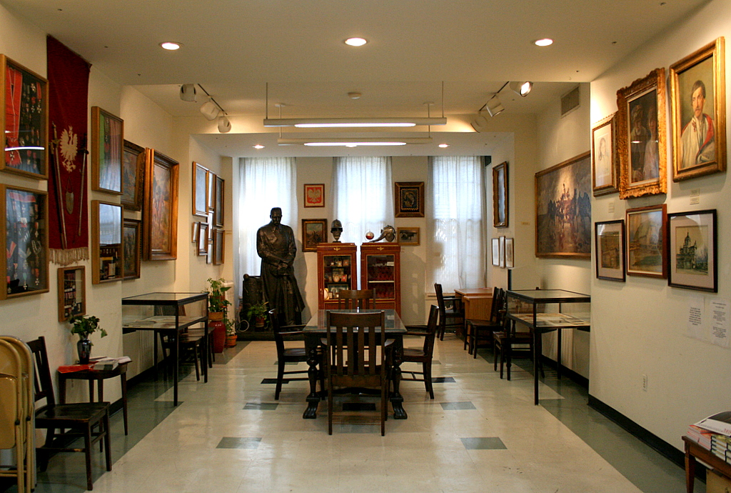 Jozef Pilsudski Institute of America - exhibition hall